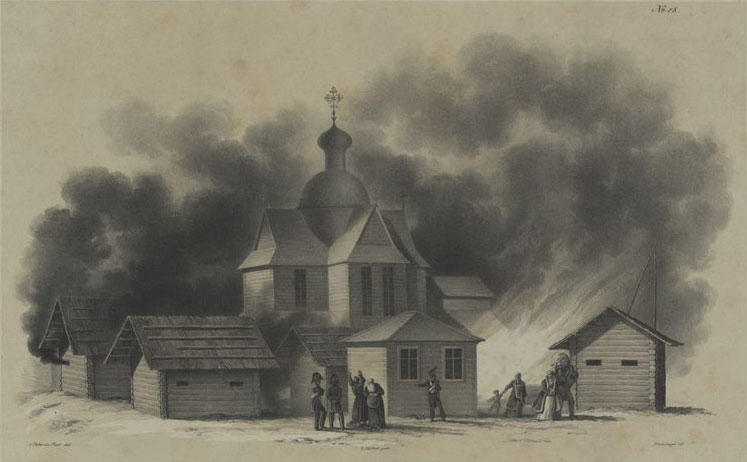 Church in Biešankovičy, Belarus (29 Julius 1812)